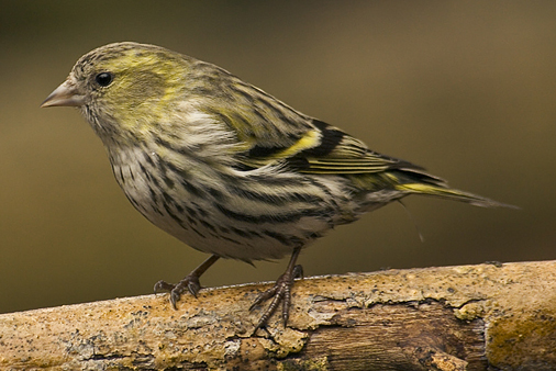 Eurasian Siskin